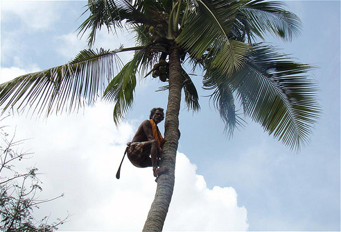 Location= Thiruvanathapuram